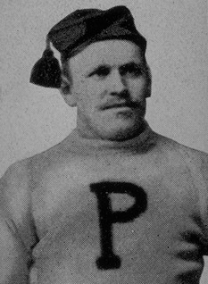 Photo of Hector Cowan, college football player at Princeton from 1886-1889